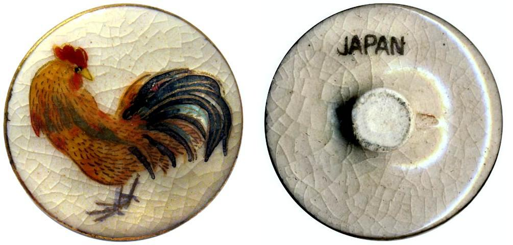 Pictorial Satsuma-ware button, front & back, depicting a rooster